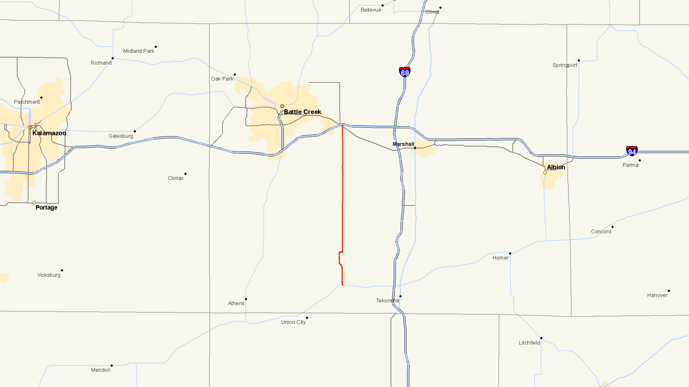 Map of M-311